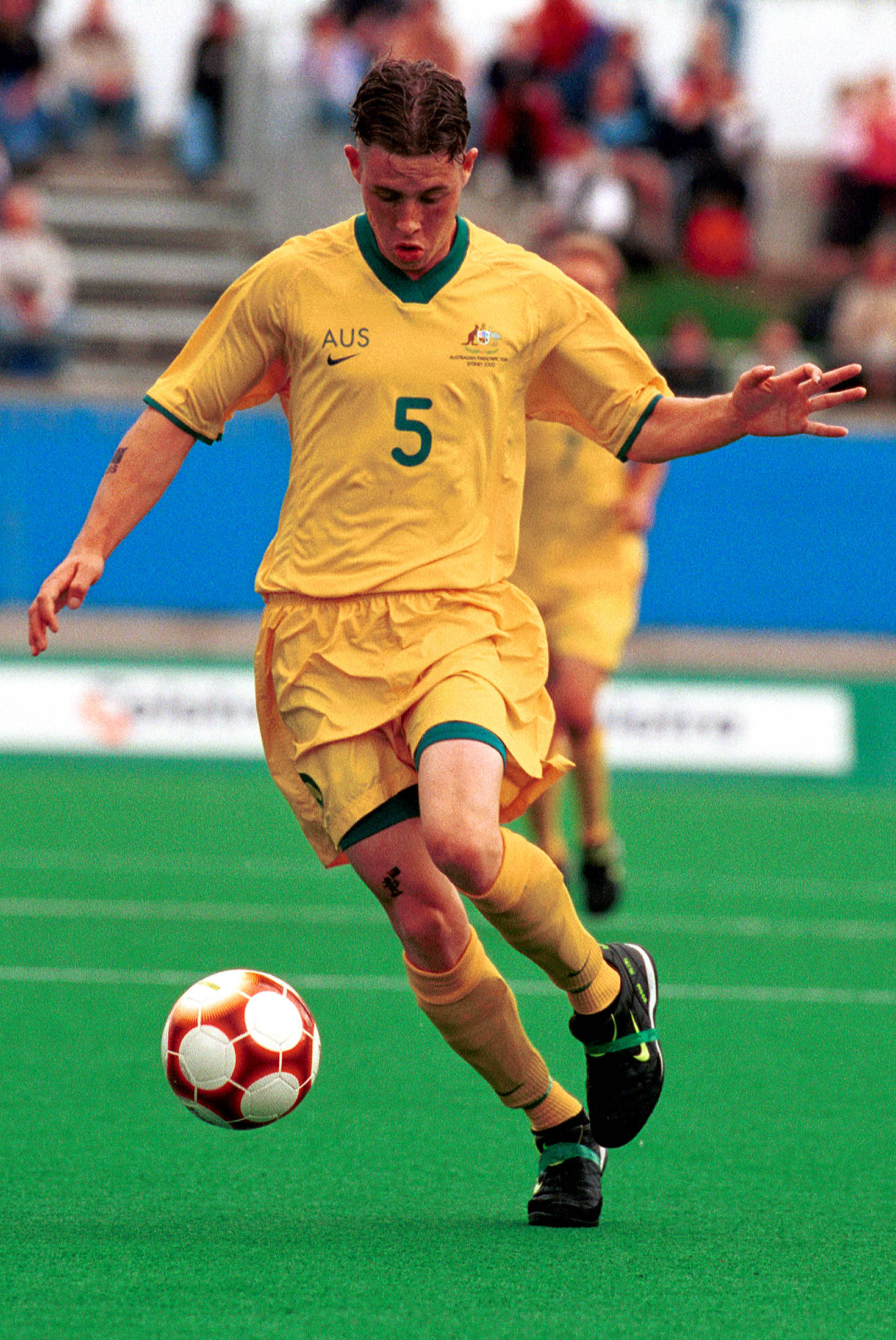 Australian football player Jason Rand during 2000 Sydney Paralympic Games match